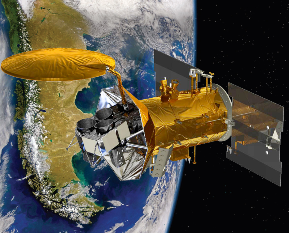 Artist depiction of the Aquarius/SAC-D satellite observatory 657 km (408 miles) above Earth's surface. A collaboration between the space agencies of the U.S. and Argentina, Aquarius/SAC-D was launched from Vandenberg Air Force Base on June 10, 2011.